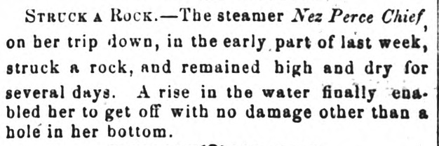 news item on Nez Perce Chief striking rock, published in Walla Walla Statesman, December 25, 1868, page 3, col.1